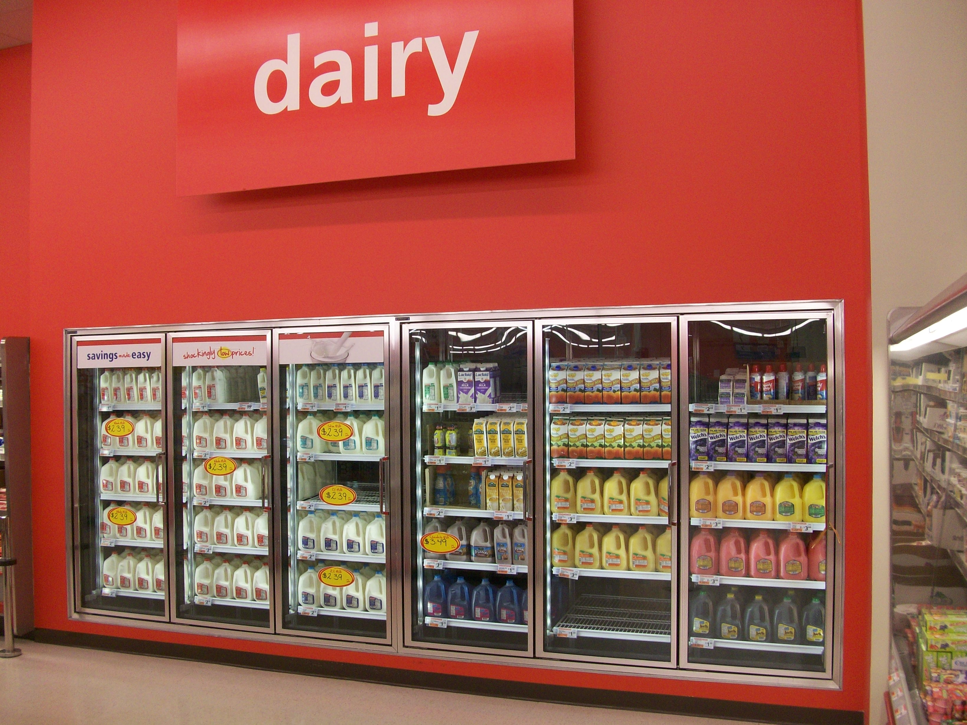 Dairy section of Save-A-Lot store in Hartford, CT